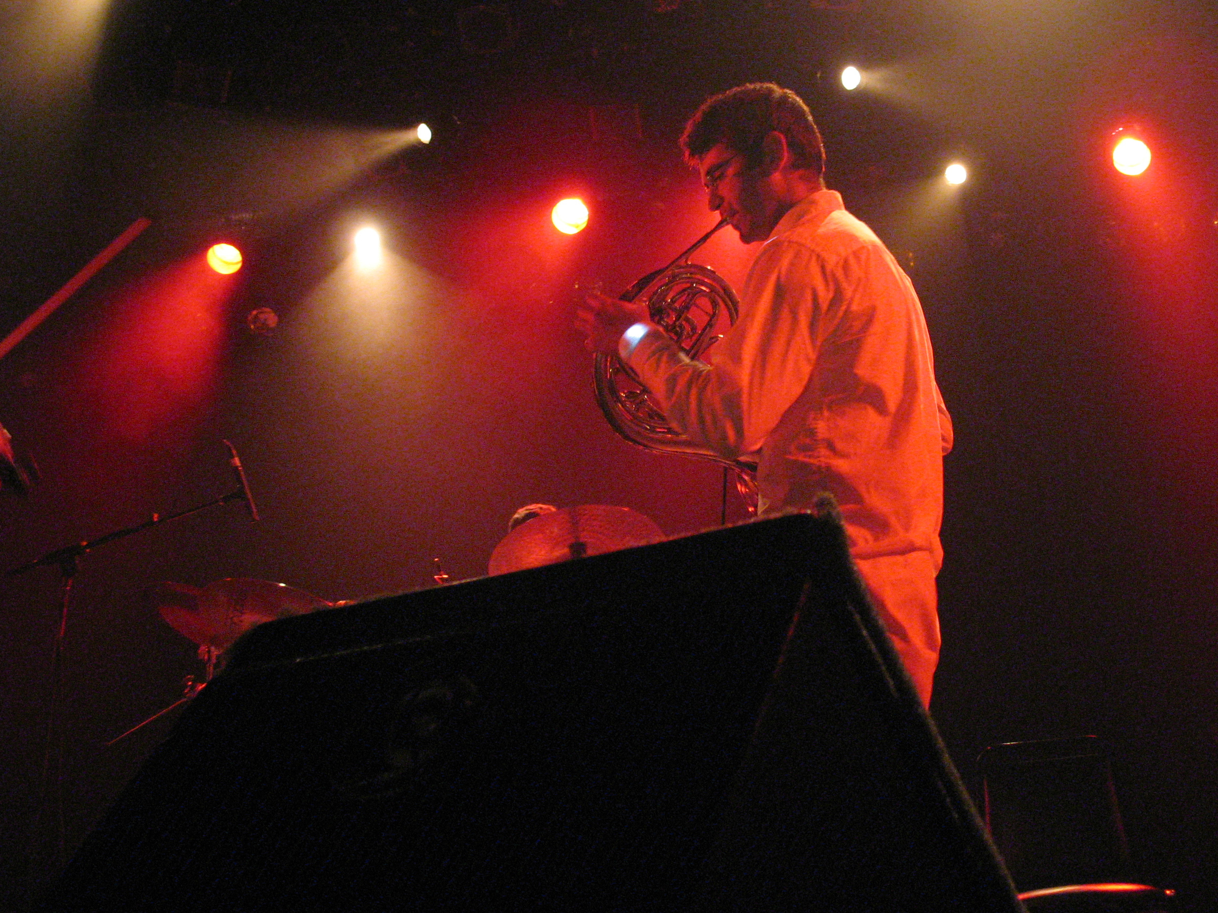 Pietro Amato performs with Bell Orchestre in Montreal, Québec on July 6, 2006.